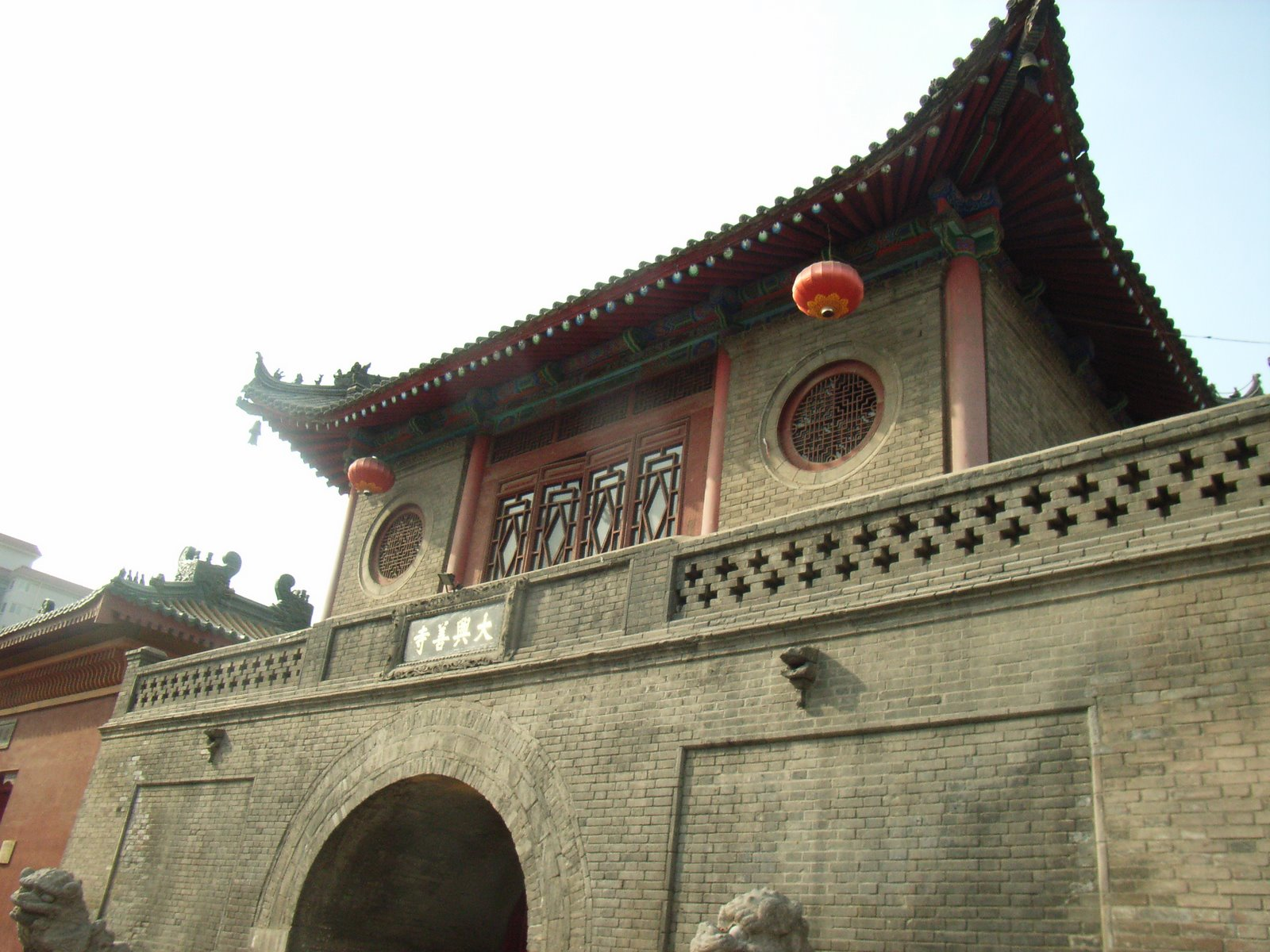 Xingshan Temple, Xi'an